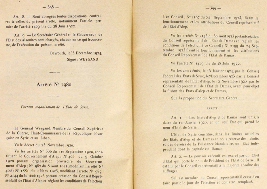 Arrete No 2980 creating the State of Syria, 5 December 1924